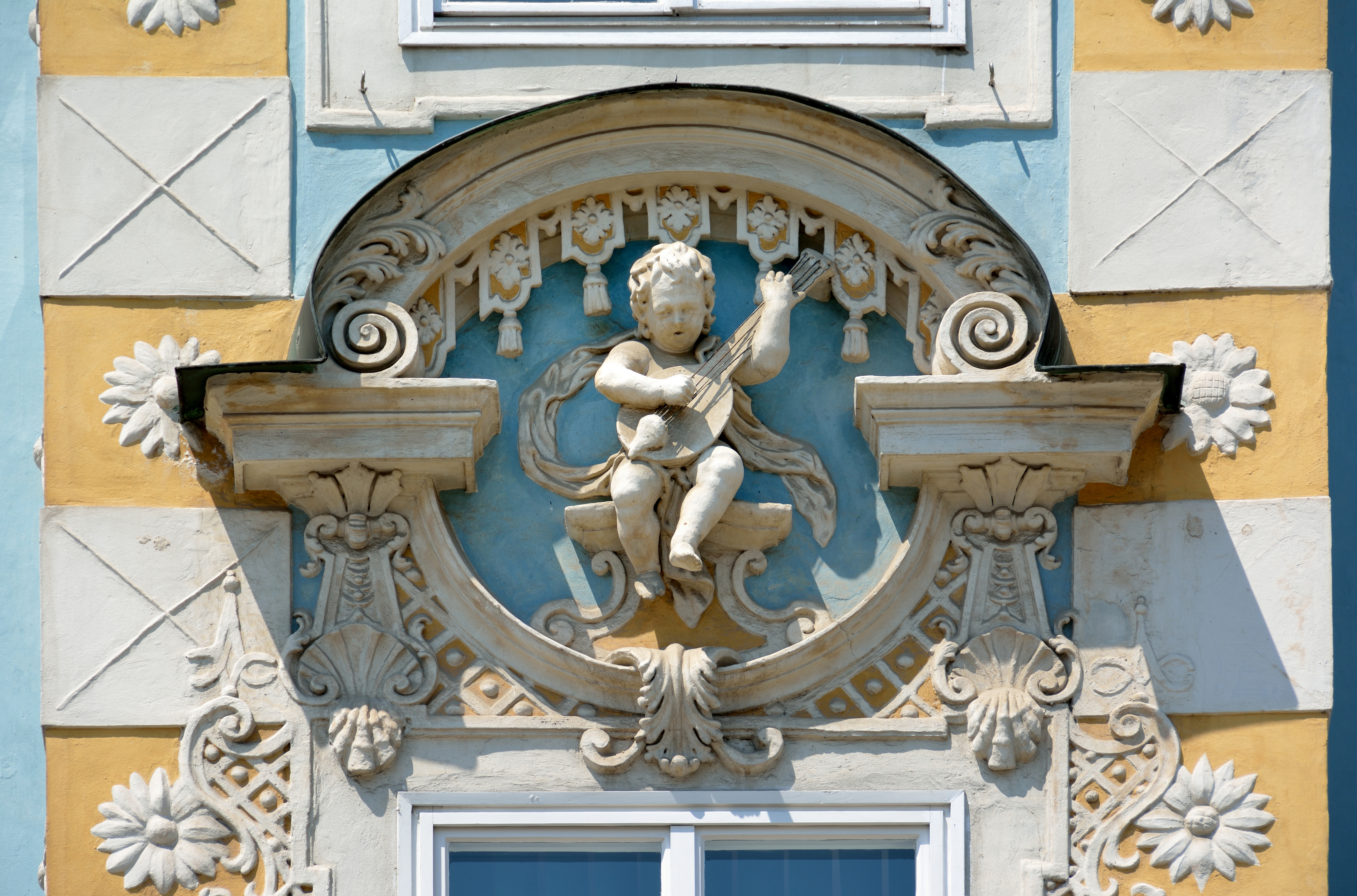 Sternhaus Stadtplatz 12, facade detail: Allegory Hearing, Steyr, Upper Austria